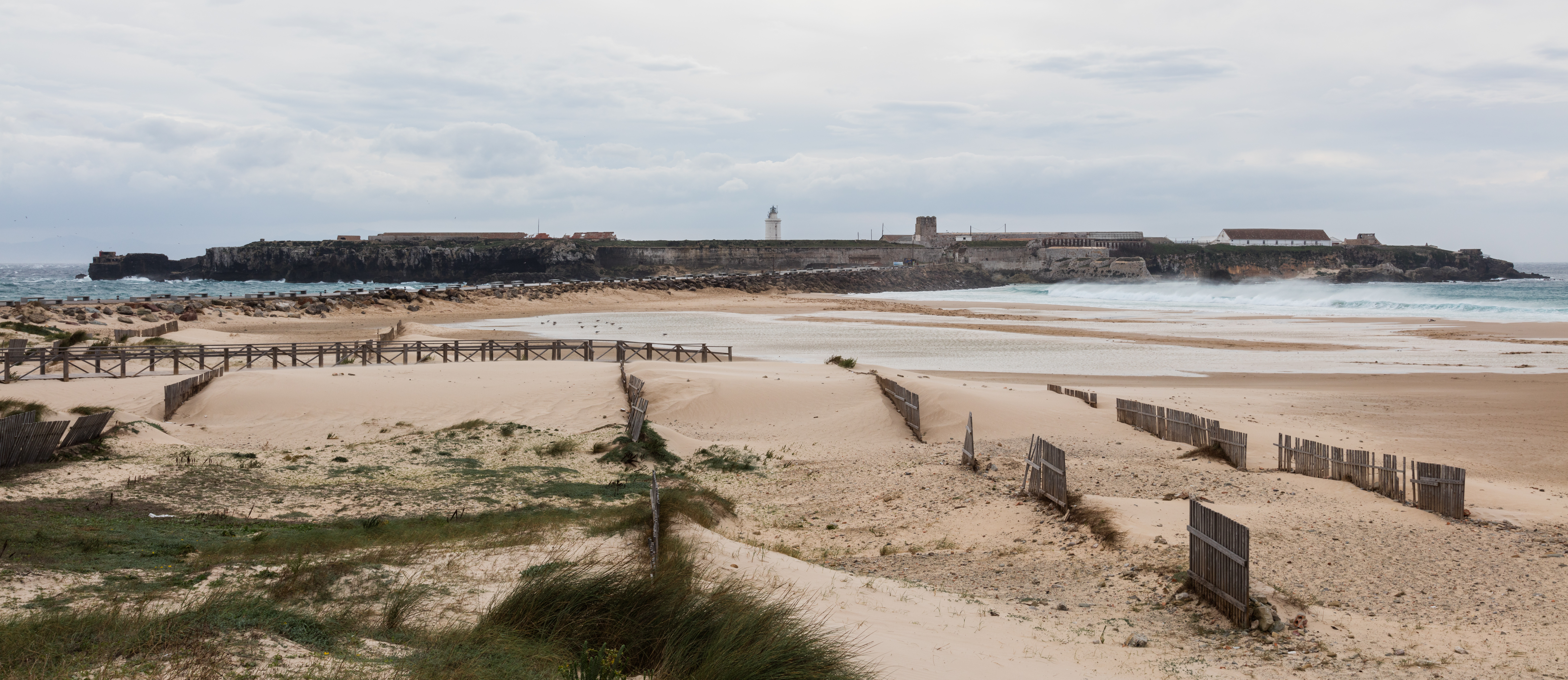 Tarifa Island, Cádiz, Spain